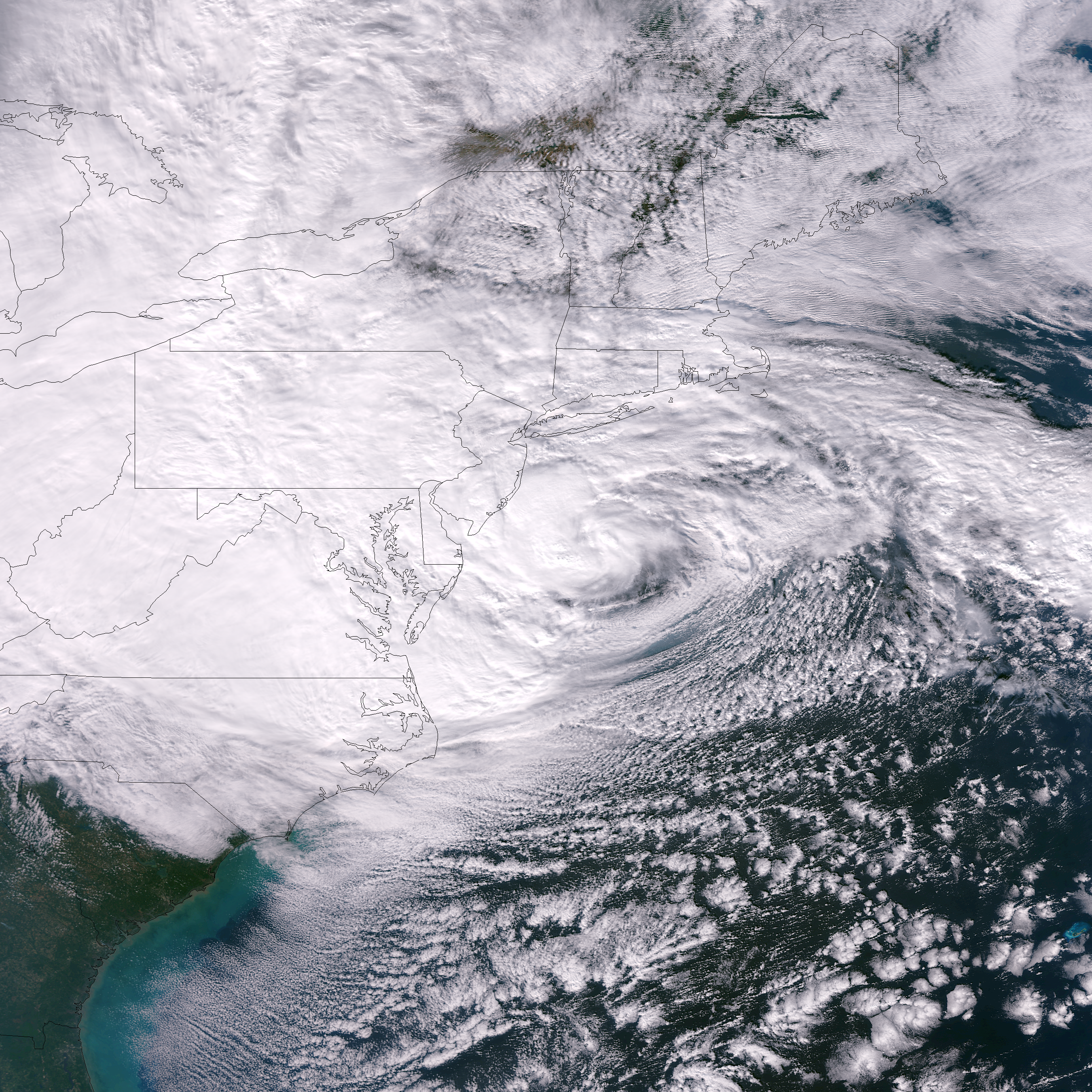 Hurricane Sandy as seen by the Suomi NPP satellite on October 29, 2012 at 17:35 UTC.